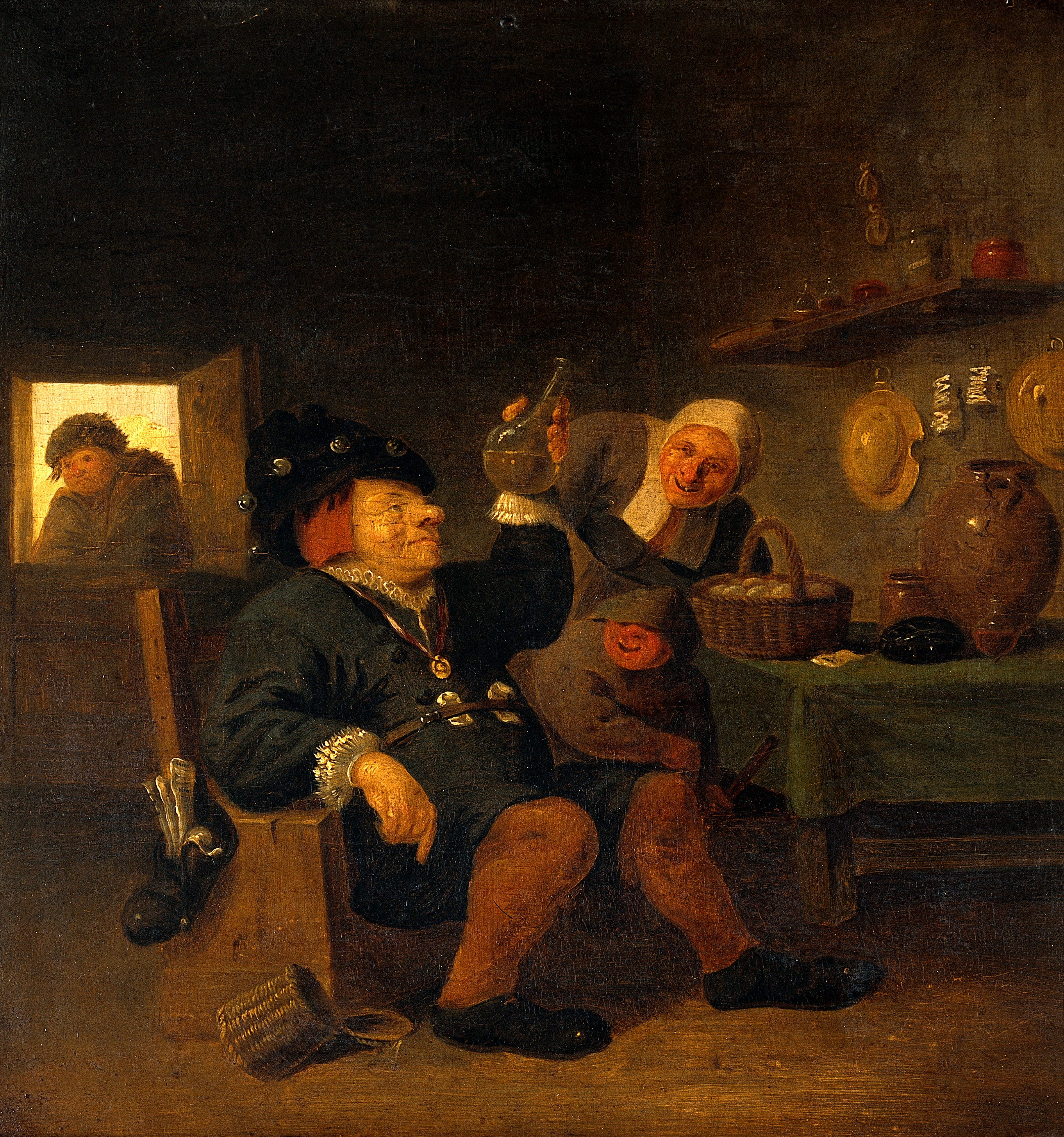 A physician examining a urine-flask. Oil painting attributed to Jan Jansz. Buesem. Iconographic Collections Keywords: Jan Jansz. Buesem